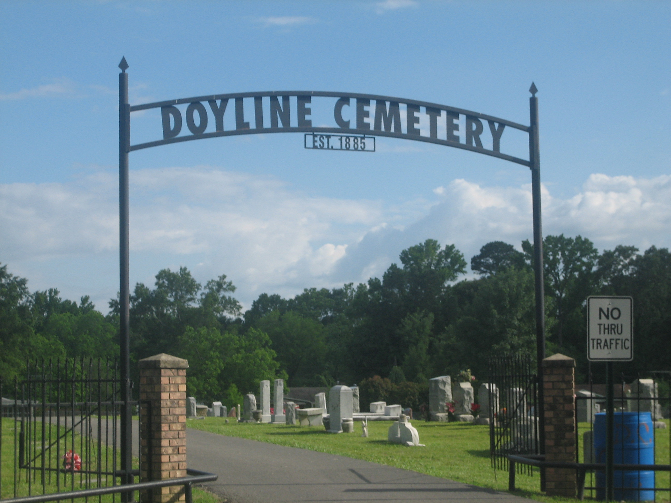 I took photo on May 21, 2009.Billy Hathorn (talk) 16:03, 29 May 2009 (UTC)